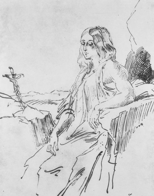 Writer George Sand depicted as Mary Magdalenelabel QS:Len,"Writer George Sand depicted as Mary Magdalene" label QS:Lfr,"George Sand en Madeleine"